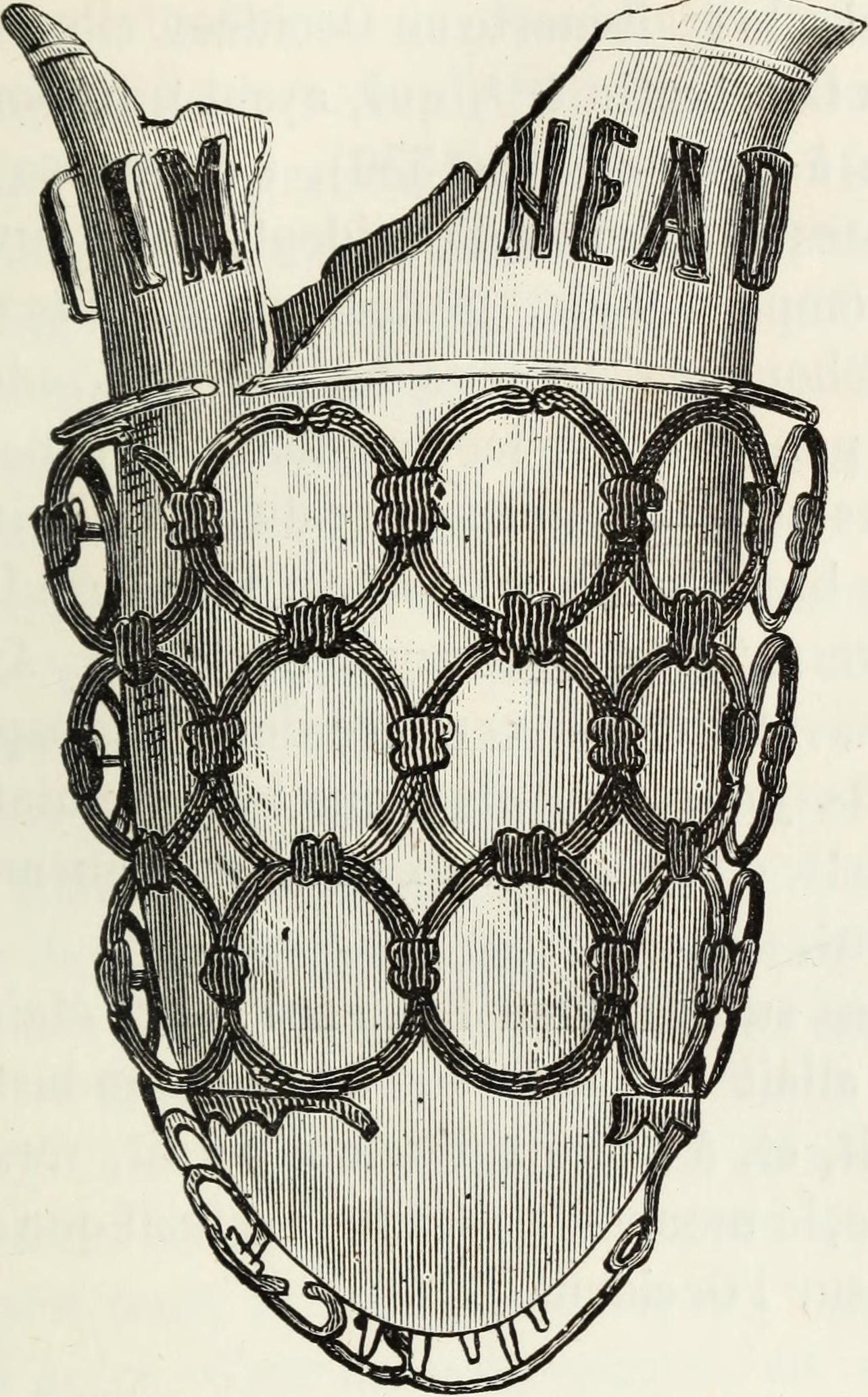 Title: La verrerie depuis les temps les plus reculés jusqu'à nos jours Year: 1869 (1860s) Authors: Sauzay, A. (Alexandre), 1804-1870 Cavagna Sangiuliani di Gualdana, Antonio, conte, 1843-1913, former owner. IU-R Subjects: Glass Glassware Glass manufacture Glass craft Decoration and ornament Glass painting and staining Mirrors Optical glass Optical instruments Eyes, Artificial Glass beads Publisher: Paris : L. Hachette & Cie Text Appearing Before Image: Fig. 8. — Verreries romaines. THE LIBRARY or THE UNIVERSITY Uf ILLINOIS HISTOIRE GÉNÉRALE. 19 les médailles sont très-fréquentes dans nos environs. Cetempereur avait vraisemblablement reçu cette coupe enprésent, et lavait ensuite donnée à quelque ami, mort aux Text Appearing After Image: Fig. 9. — Vase de Strasbourg. environs dArgentoratum (Strasbourg), avec lequel ellefut enterrée comme un objet précieux. » Les nombreuses verreries, établies tant dans la Gaulequen Espagne, durèrent jusquau moment où la civilisationétant refoulée parles barbares qui avaient porté le pillage 20 LES MERVEILLES DE LA VERRERIE et lincendie dans Home, elles tombèrent, ainsi que toutesles autres industries, dans une décadence telle, que lesprocédés de fabrication furent perdus pour lOccident. Rien ne meurt tout à fait, dit-on; la vérité de ces parolesse trouve encore établie quant à ce qui a rapport à la ver-rerie, car si elle était morte en Occident, elle renaissait enOrient sous Constantin Ier1, qui, ayant transporté le siègede lempire à Byzance (lan 550), sempressa dattirer àlui les artistes et ouvriers dOccident, qui trouvèrent dansce nouvel empire, aide, protection, et, plus encore, unimmense débouché pour tous les genres dindustrie, à cepoint que, pour fa